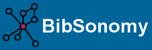 Logo of the social Bookmarking System BibSonomy